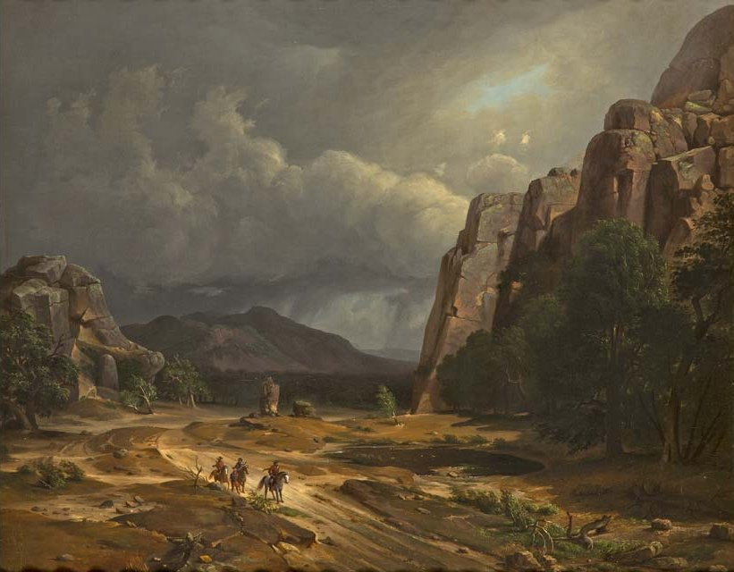 Horse Thief by George Caleb Bingham, 1852, oil on canvas, 29 x 35¾ inches